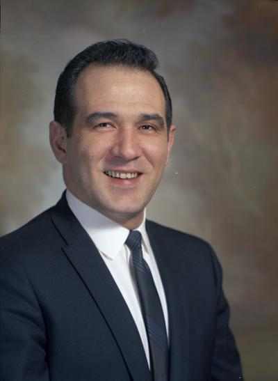 Representative John Bagnariol, 1967